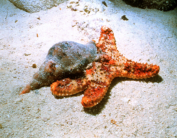 An Altantic triton (Charonia nobilis Syn. Charonia variegata) eating a cushion sea star (Oreaster sp., maybe O. clavatus).